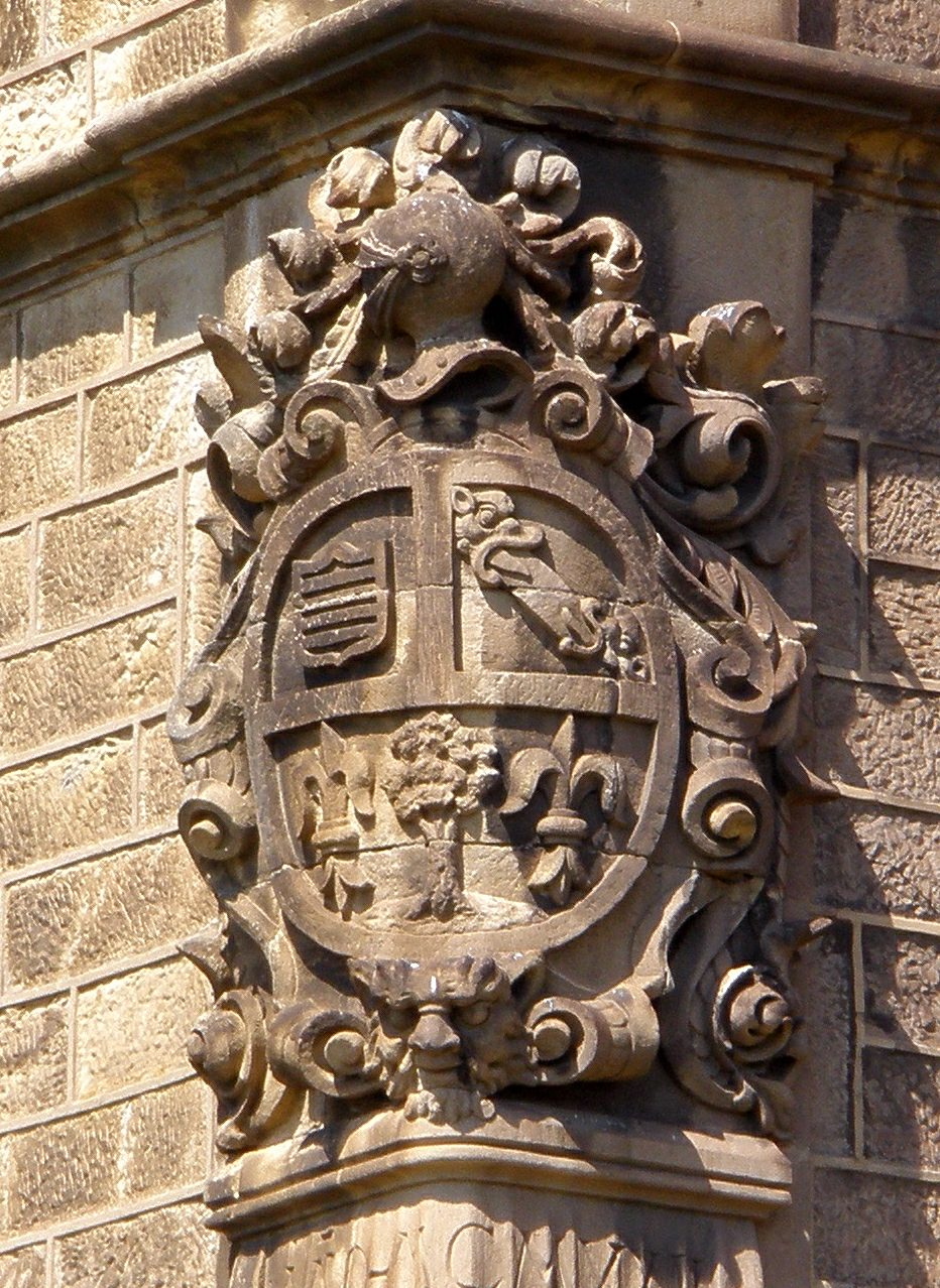 Palacio Lezama-Leguizamón, en Neguri, Guecho (Vizcaya)